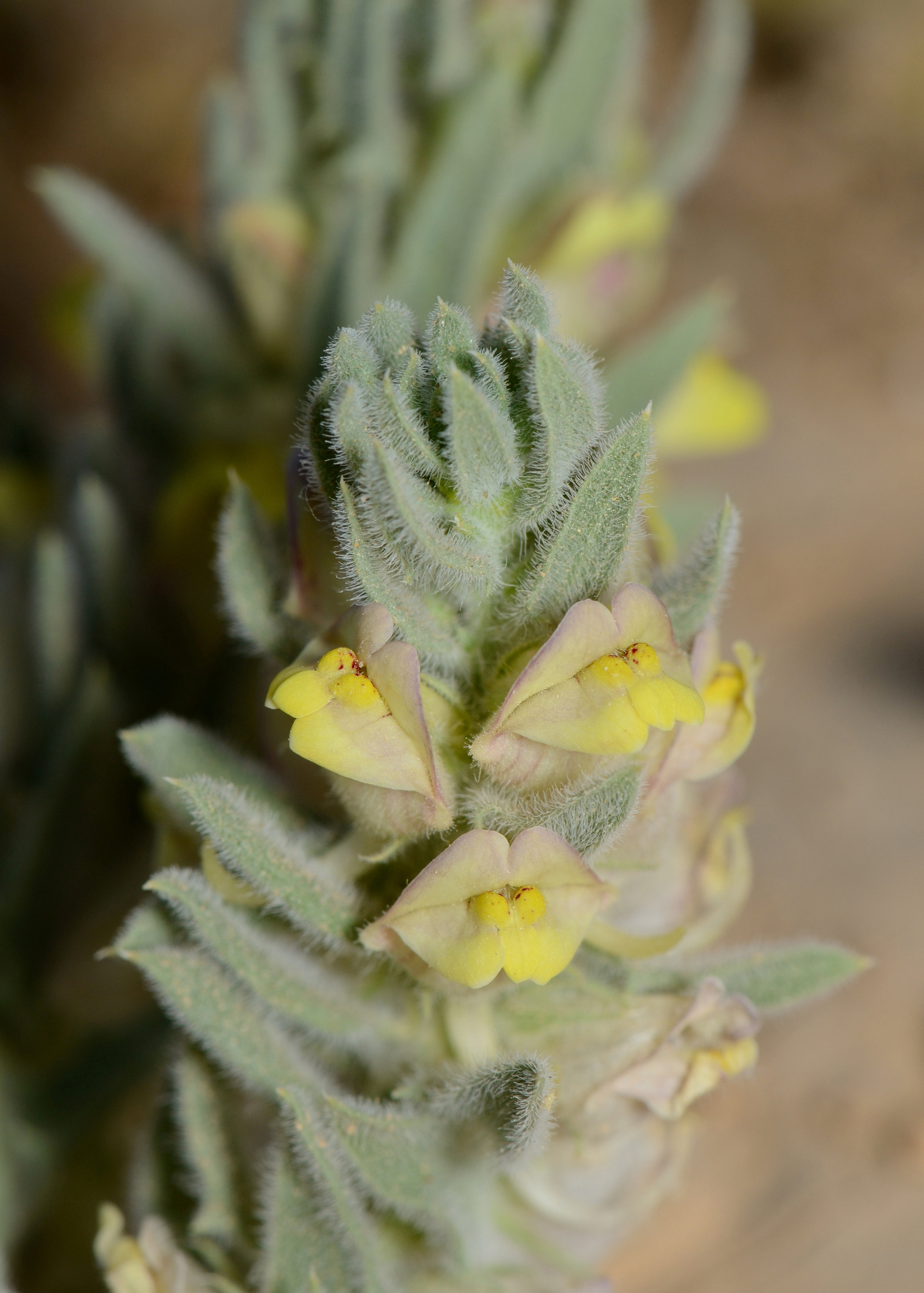 Kickxia floribunda (Boiss.) Täckh. & Boulos, Nahal Koveshim, Be'er Sheba, Israel, April 3, 2013.